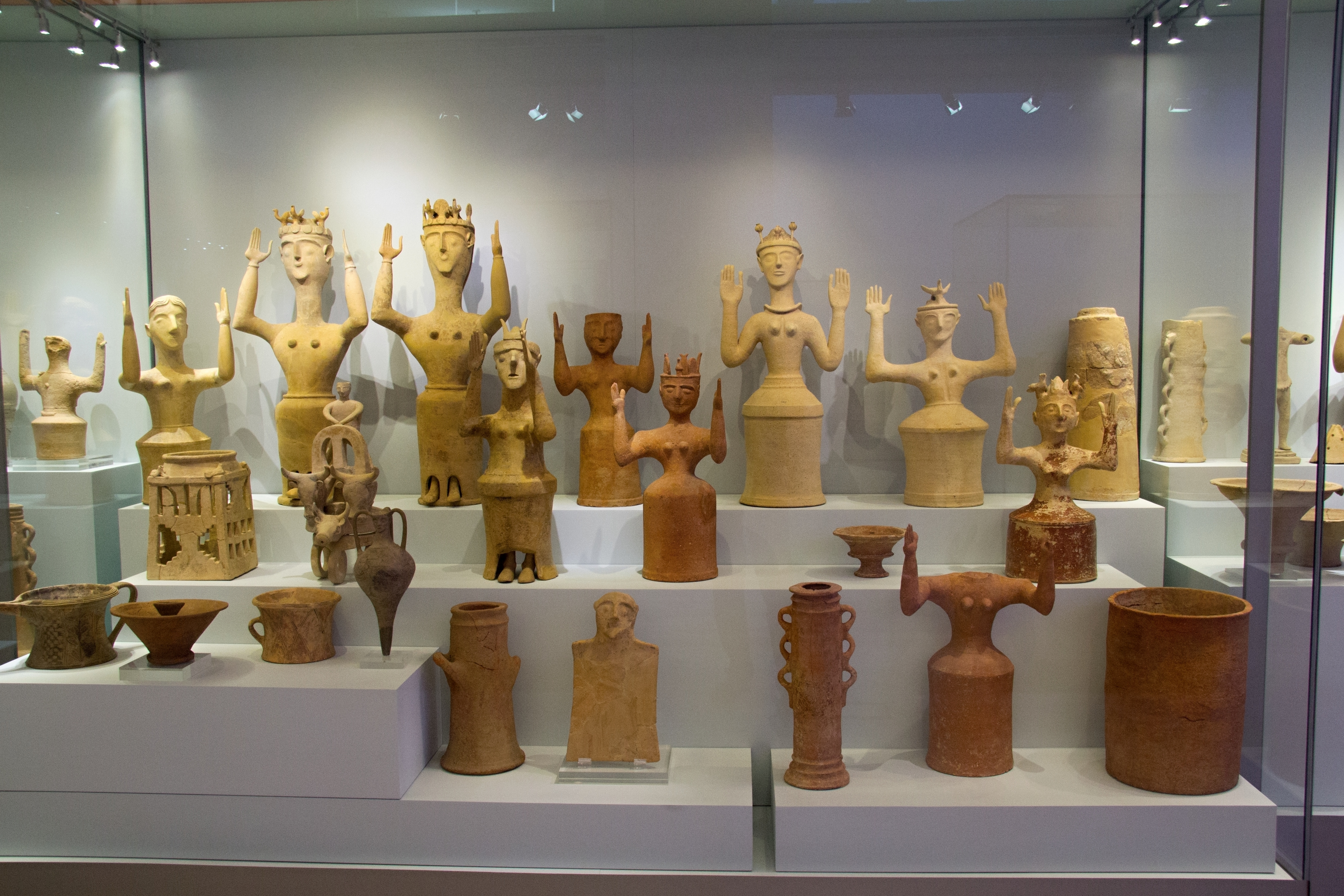 Collection of sacral terracottas from Gazi near Heraklion, especially goddesses with upraised arms. 1300-1100 BC. Archaeological museum of Heraklion.